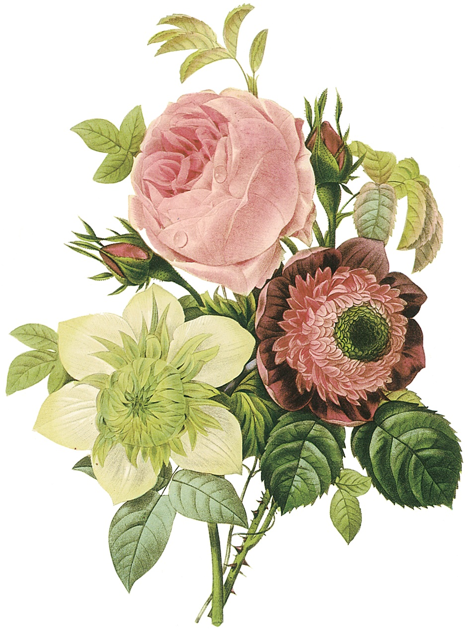 Centifolia rose, anemone, and clematis. Picture of roses by Pierre-Josephe Redouté